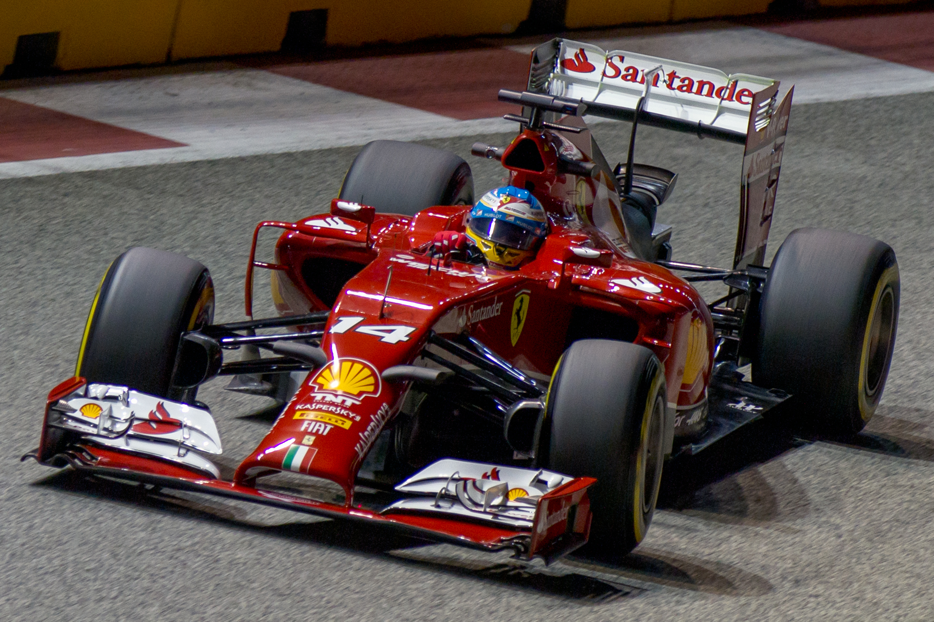 Formula One 2014 Rd.14 Singapore GP: Fernando Alonso (Ferrari)